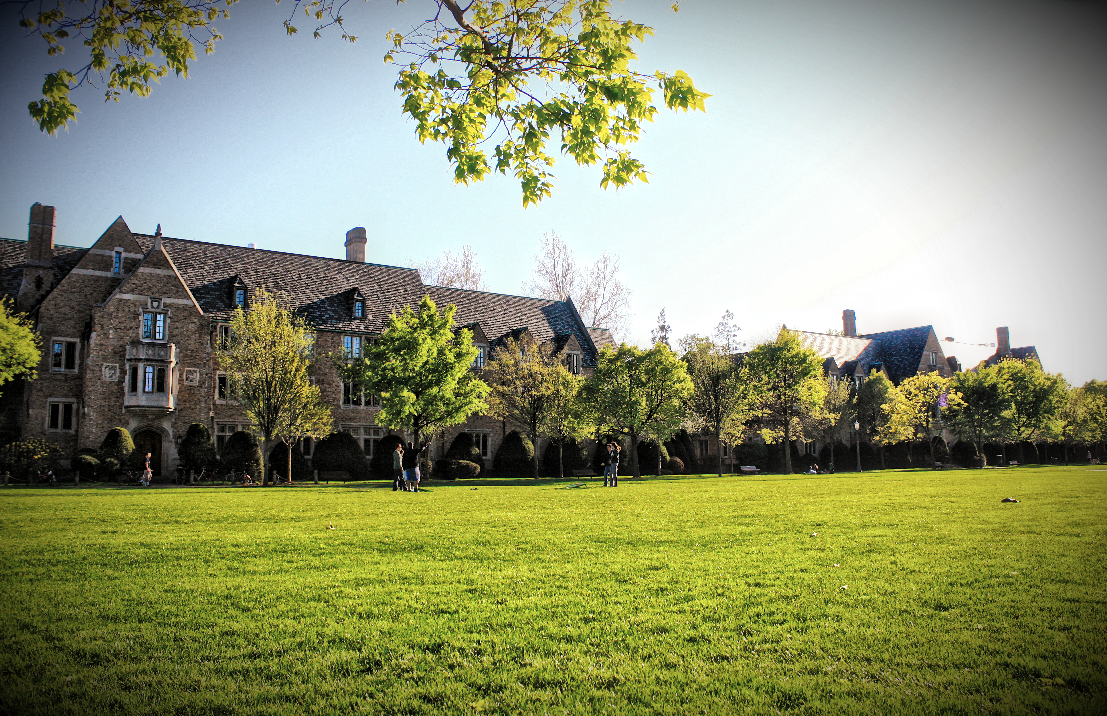 View of both Alumni and Dillon Hall on Notre Dame's South Quad.